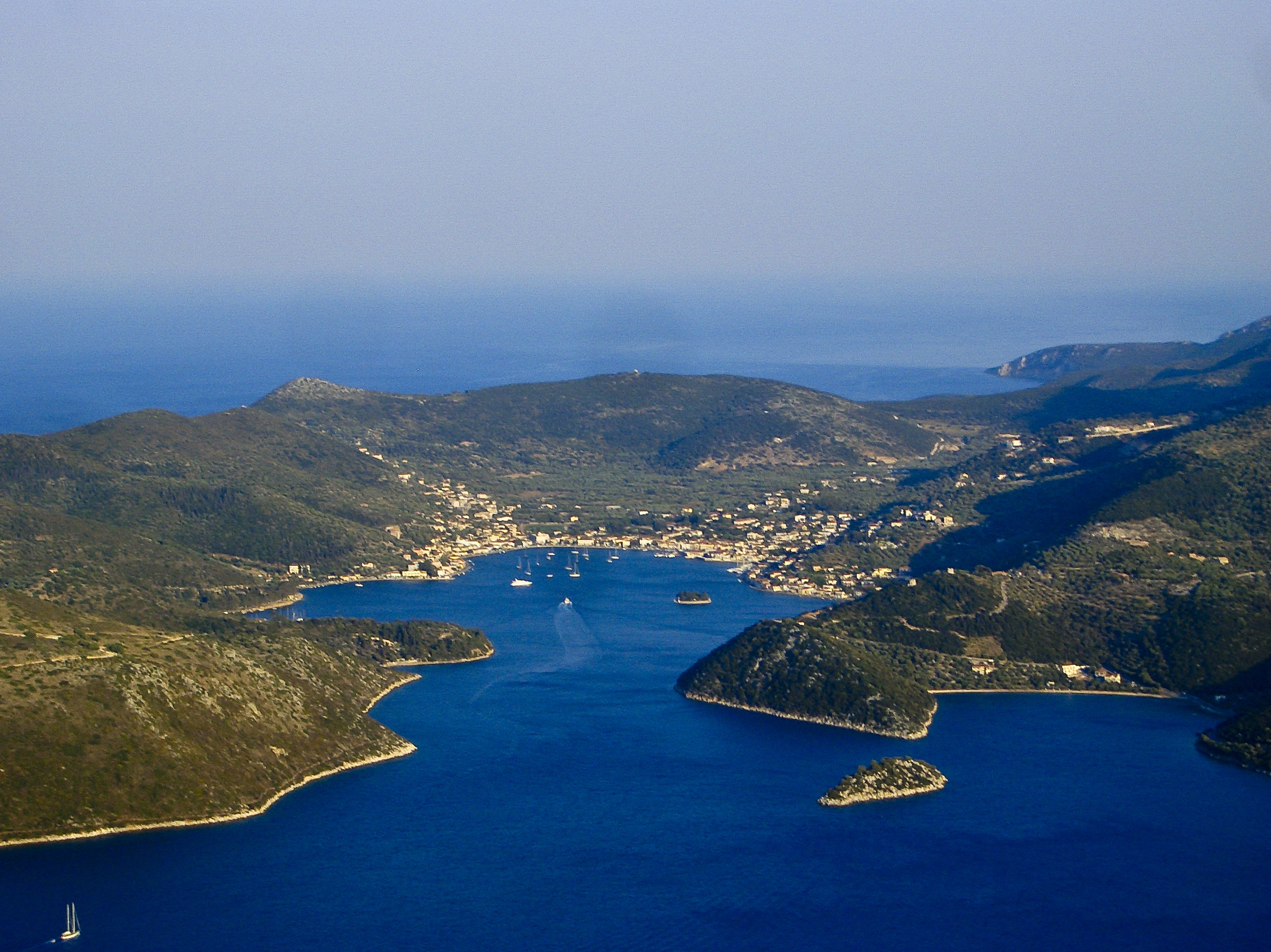 Gulf of Molos (foreground) and Bay of Vathy (centre), Ithaca, Ionian Islands, Greece; view from Kathara monastery